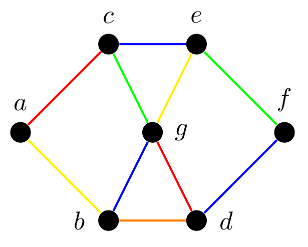 Illustrates various bicolored paths in the Misra and Gries edge coloring algorithm